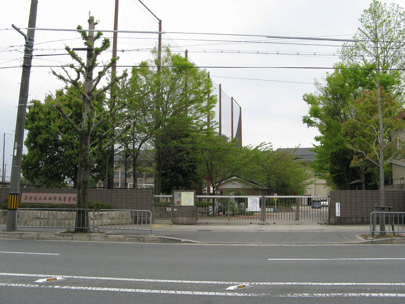 Picture of the front gate entrance of Sagano Senior High School in Kyoto City, Japan